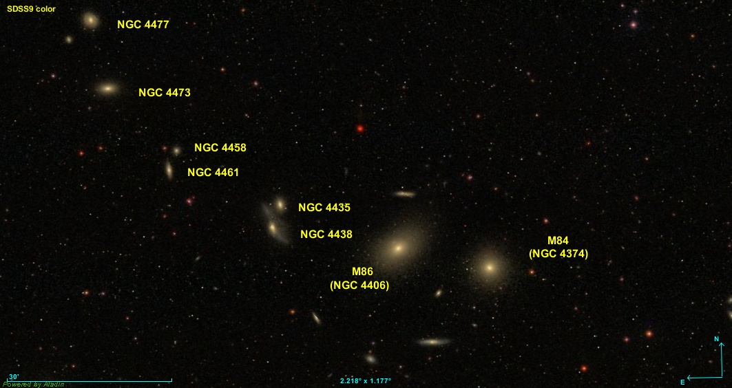 Image created using the Aladin Sky Atlas software from the Strasbourg Astronomical Data Center and SDSS (Sloan Digital Sky Survey) public data.